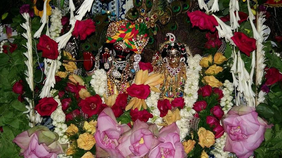 Presiding deity of Sri Sri Radha Mohan Jeu Temple